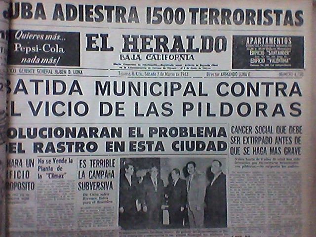 Primera plana de "El Heraldo Baja California" del 2 de marzo de 1963. El titular dice "Batida municipal contra el vicio de las píldoras", el cual hace referencia a los operativos contra el narcomenudeo realizados por la Policía Municipal de Tijuana durante la gestión del IV Ayuntamiento de Tijuana, B.C. (1962-1963). Foto tomada a la primera plana del ejemplar, en el cual se muestran imágenes tomadas por Víctor Ramírez (reportero gráfico), notas y pies de página. El ejemplar del periódico está disponible en la hemeroteca del Archivo Histórico de Tijuana, con domicilio en calle Segunda esquina con Av. Constitución en Tijuana, B.C.